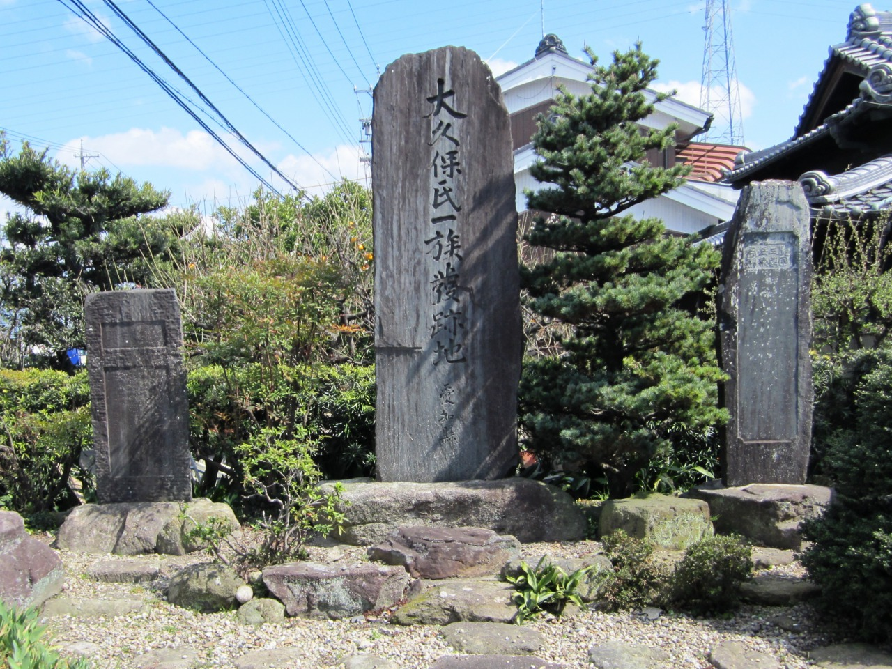 The home of the Ōkubo clan in Okazaki, Aichi.